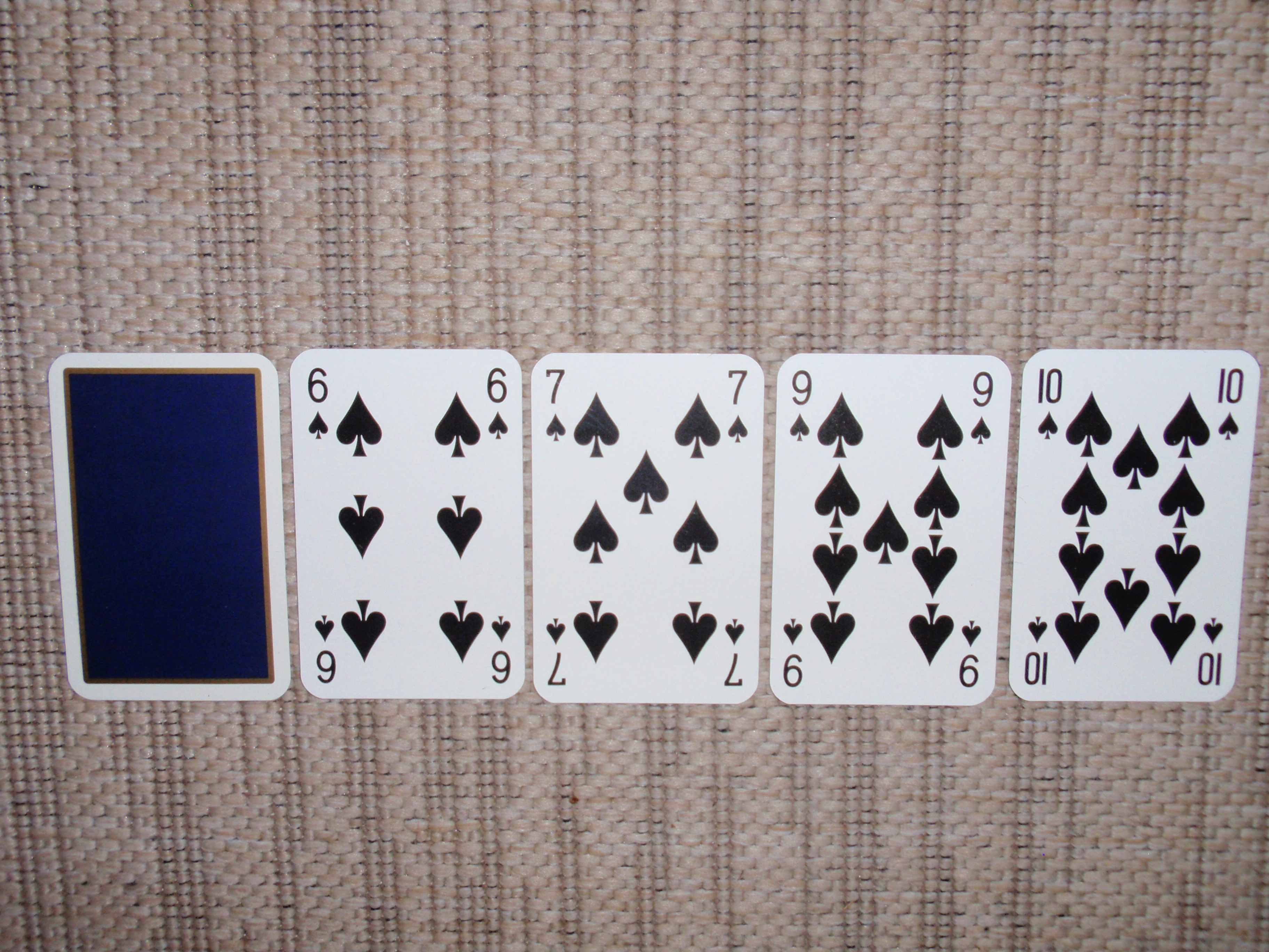 5 Card Stud Full Hand